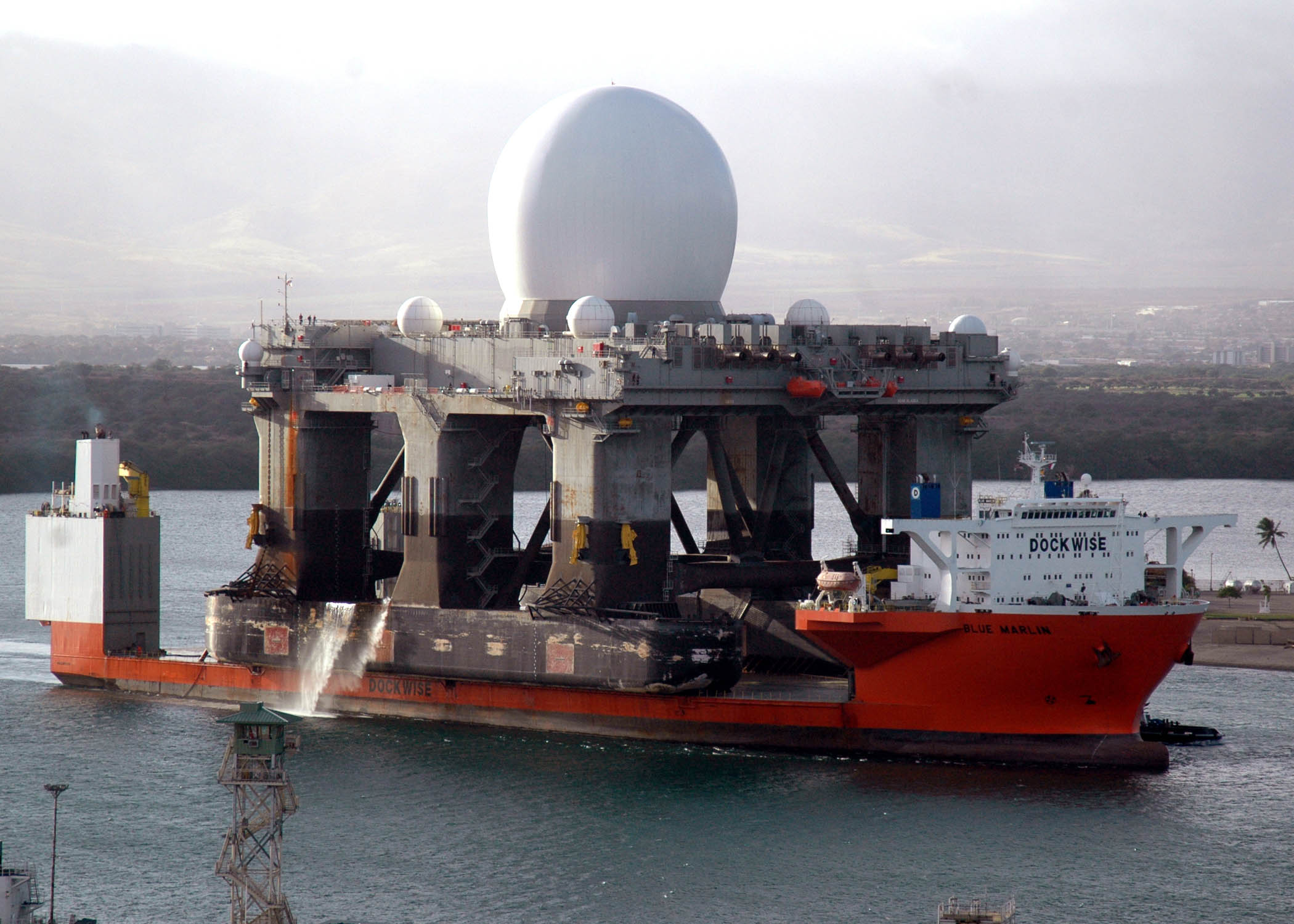 Pearl Harbor, Hawaii (Jan. 9, 2006) - The heavy lift vessel MV Blue Marlin enters Pearl Harbor, Hawaii, with the Sea-based X-band Radar (SBX) aboard after completing a 15,000-mile journey from Corpus Christi, Texas. SBX is a combination of the world's largest phased array X-band radar carried aboard a mobile, ocean-going semi-submersible oil platform. It will provide the nation with highly advanced ballistic missile detection and will be able to discriminate a hostile warhead from decoys and countermeasures. SBX will undergo minor modifications, post-transit maintenance and routine inspections in Pearl Harbor before completing its voyage to its homeport of Adak, Alaska in the Aleutian Islands.